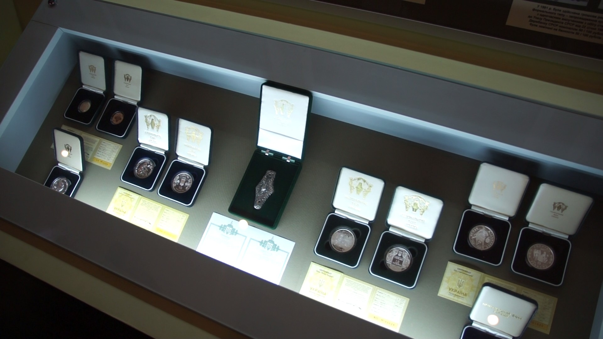 Metal money (coins, souvenir bars), commemorative medals of the National Bank of Ukraine in the updated exposition at the museum